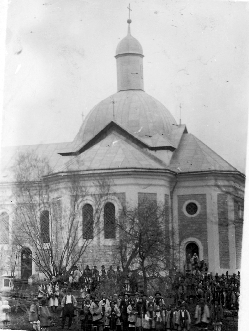 Churh in Pârâul Negru, Zastavna, Ukraine (image from the archive of the Metropolitan of Moldavia, 1936, free of copyright)